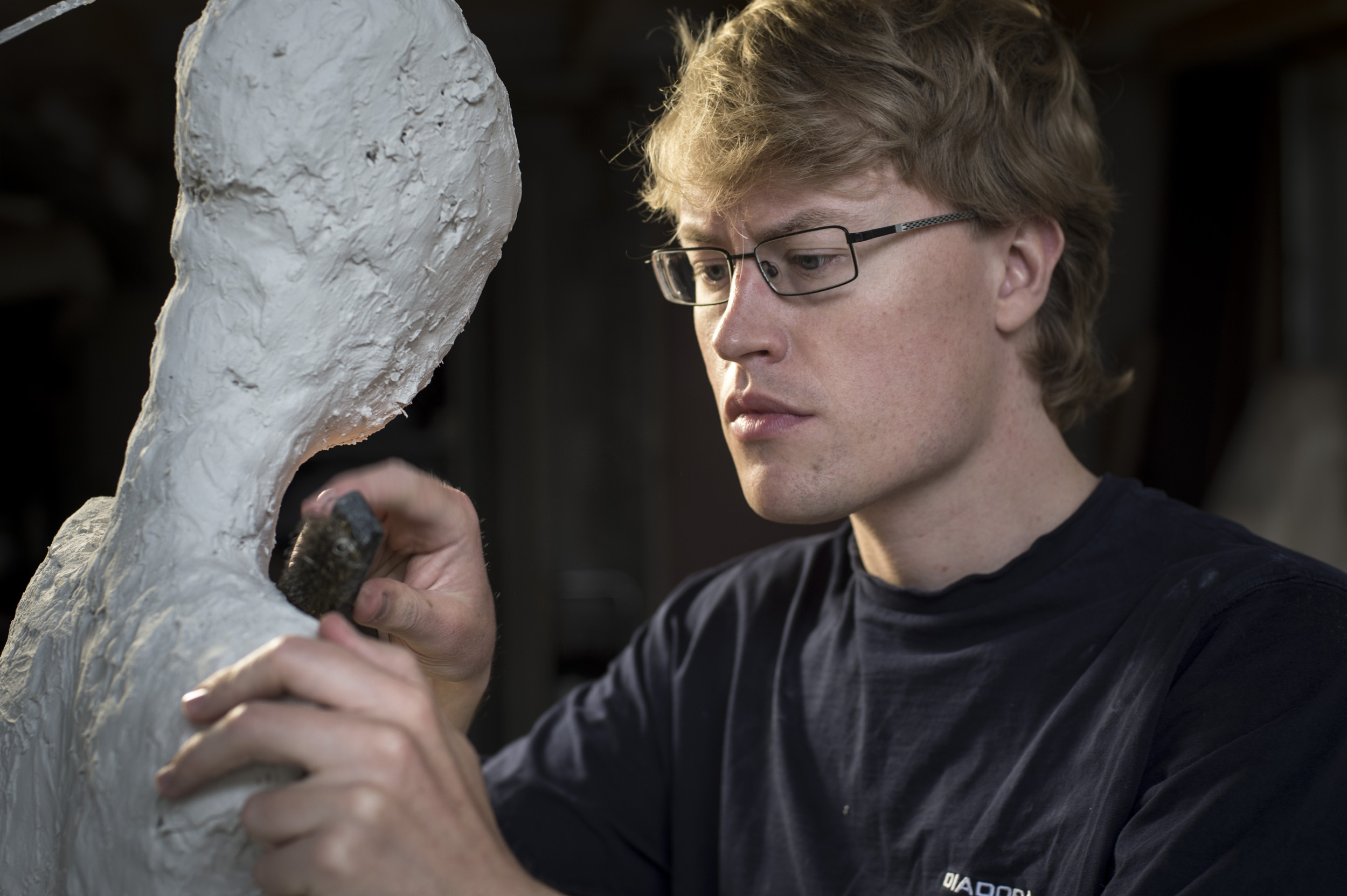 British sculptor Anthony Smith working on statue in studio